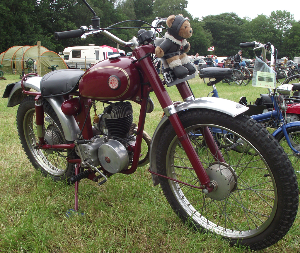 I think this is a James Cotswold K7C. 197cc. Made 1954 - 1958 The engine is a Villiers 7E. Capacity 197cc